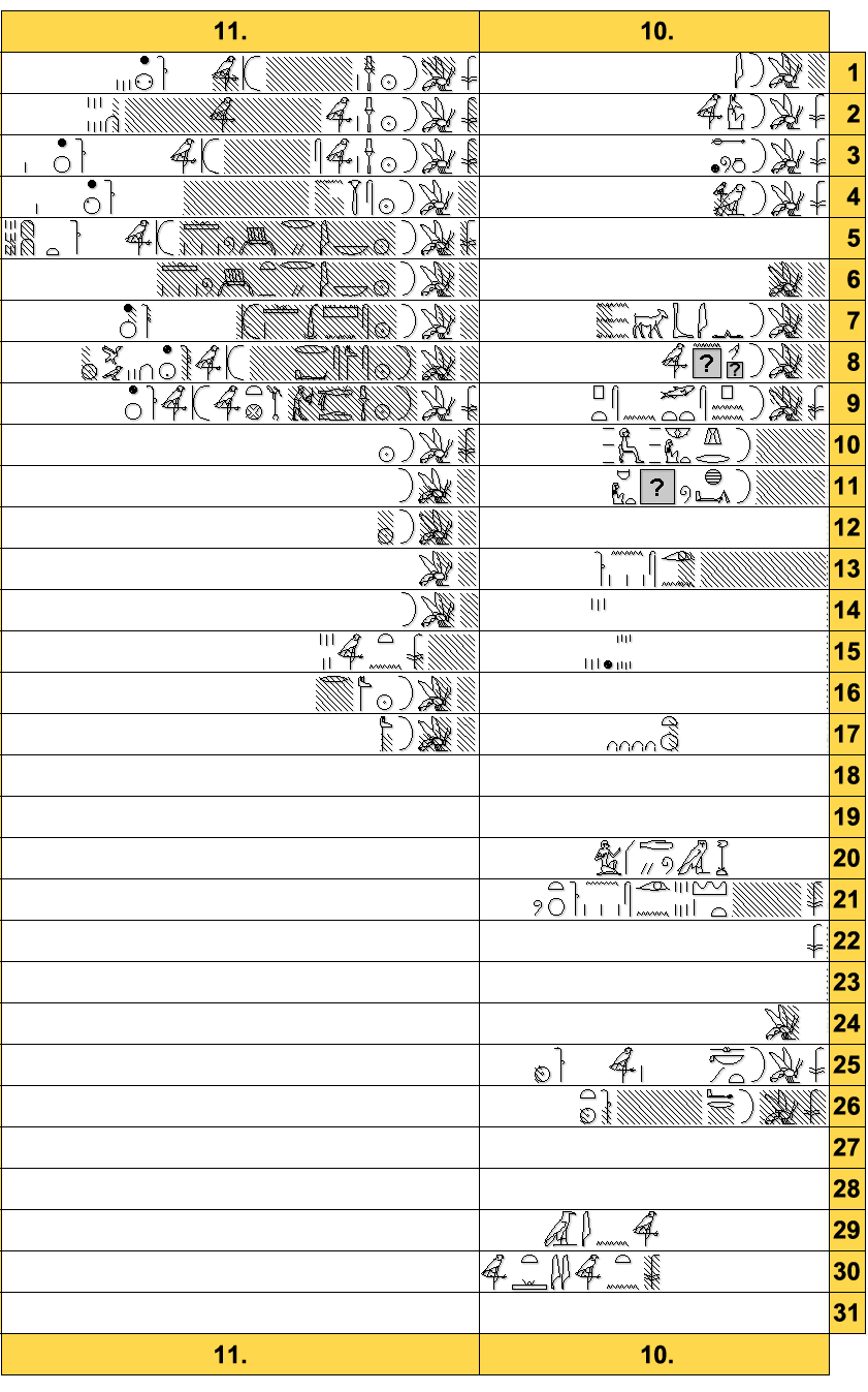 Drawing of the Turin King List (Turin Royal Canon)